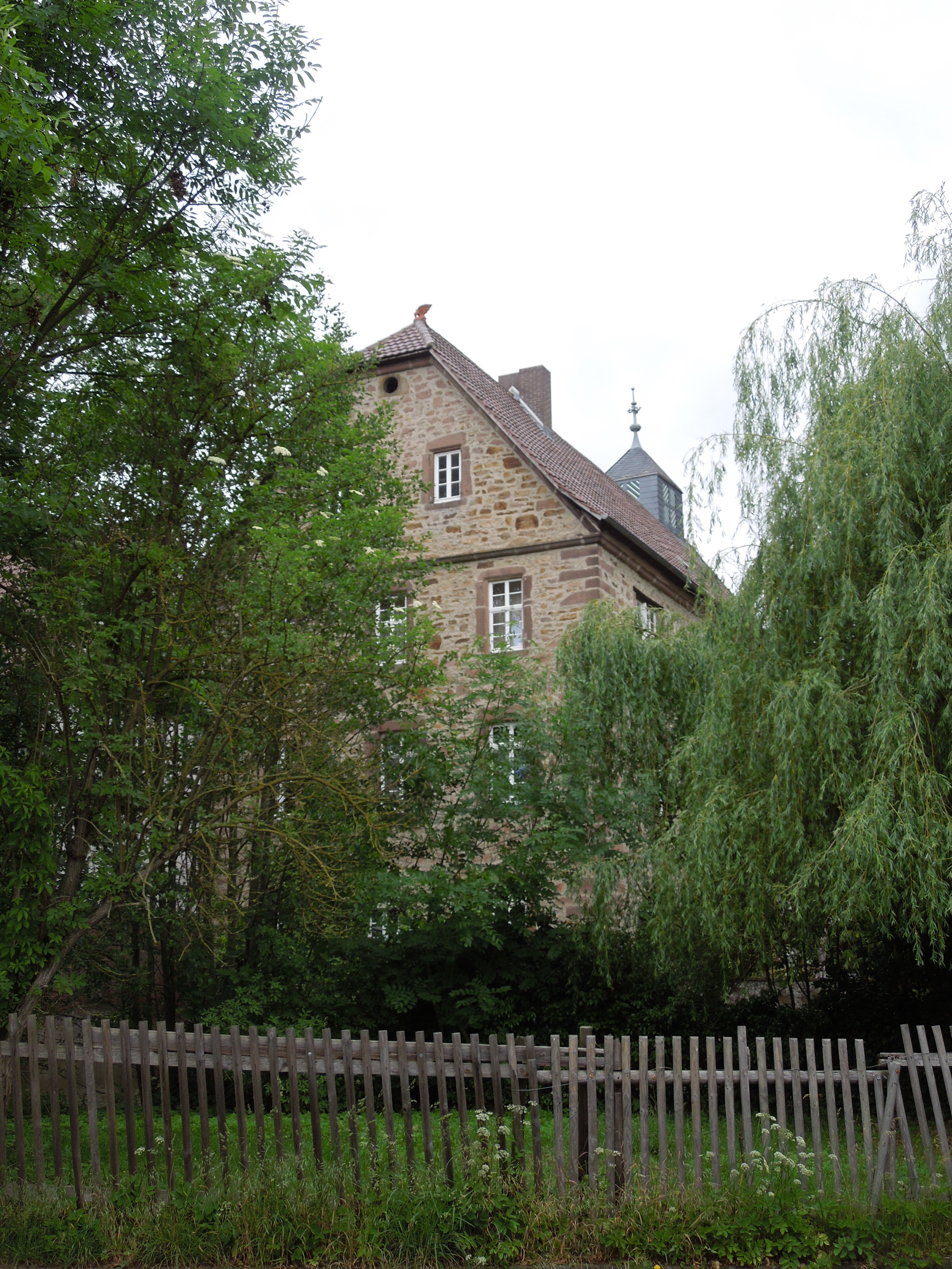 Castle in Nassenerfurth, southside (1 June 2012)